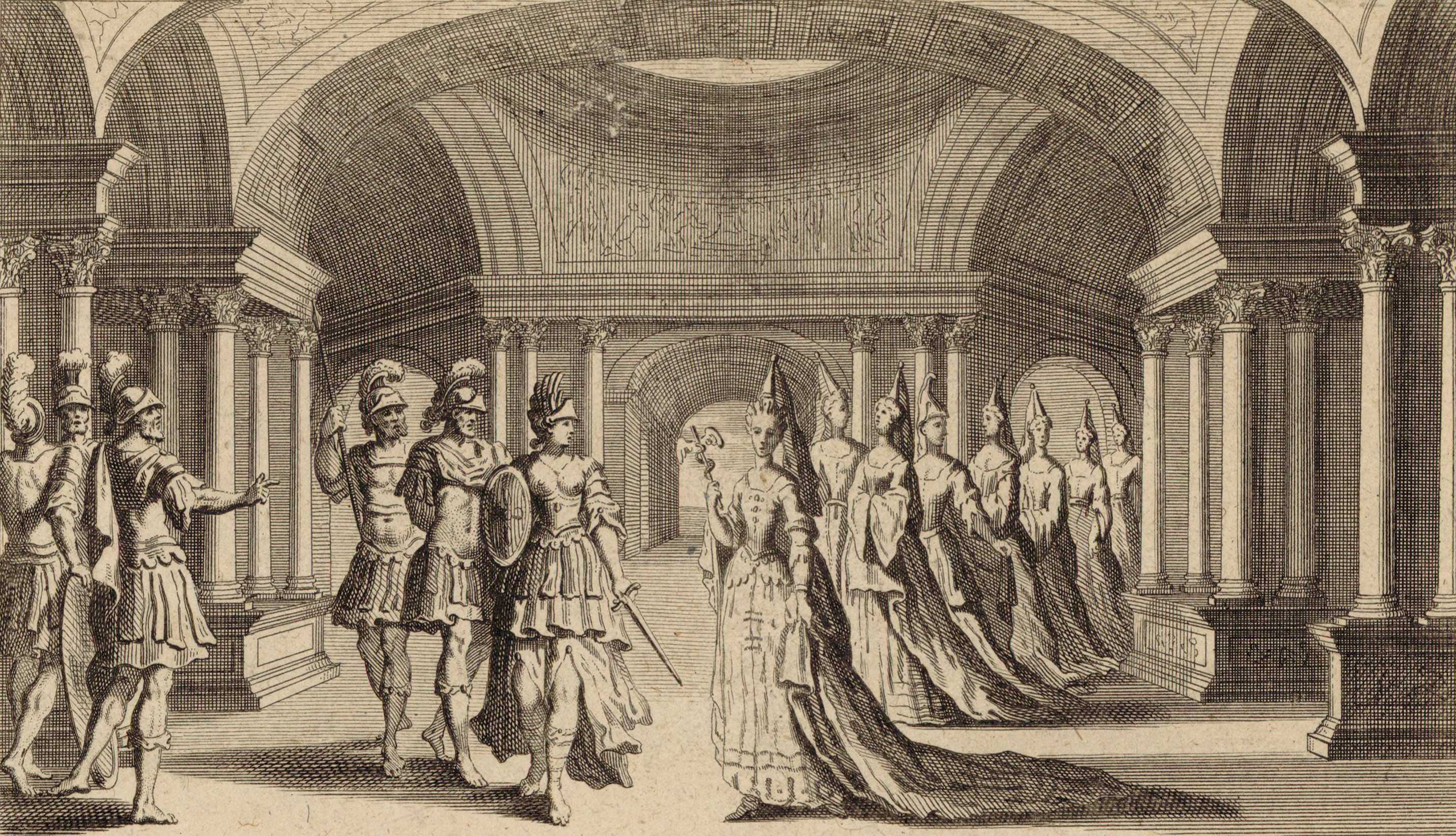 Lully - Armide - prologue